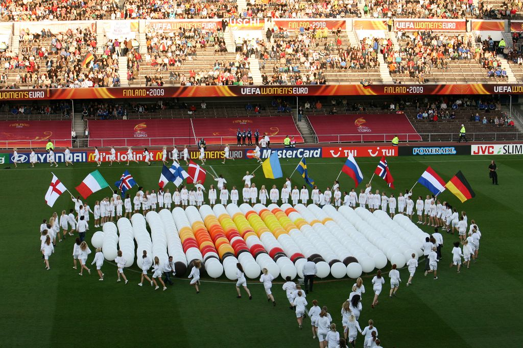 Ceremony before the UEFA Women's Euro 2009 final (Germany vs. England) at the Helsinki Olympic Stadium in Helsinki, Finland